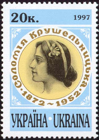 Stamp of Ukraine